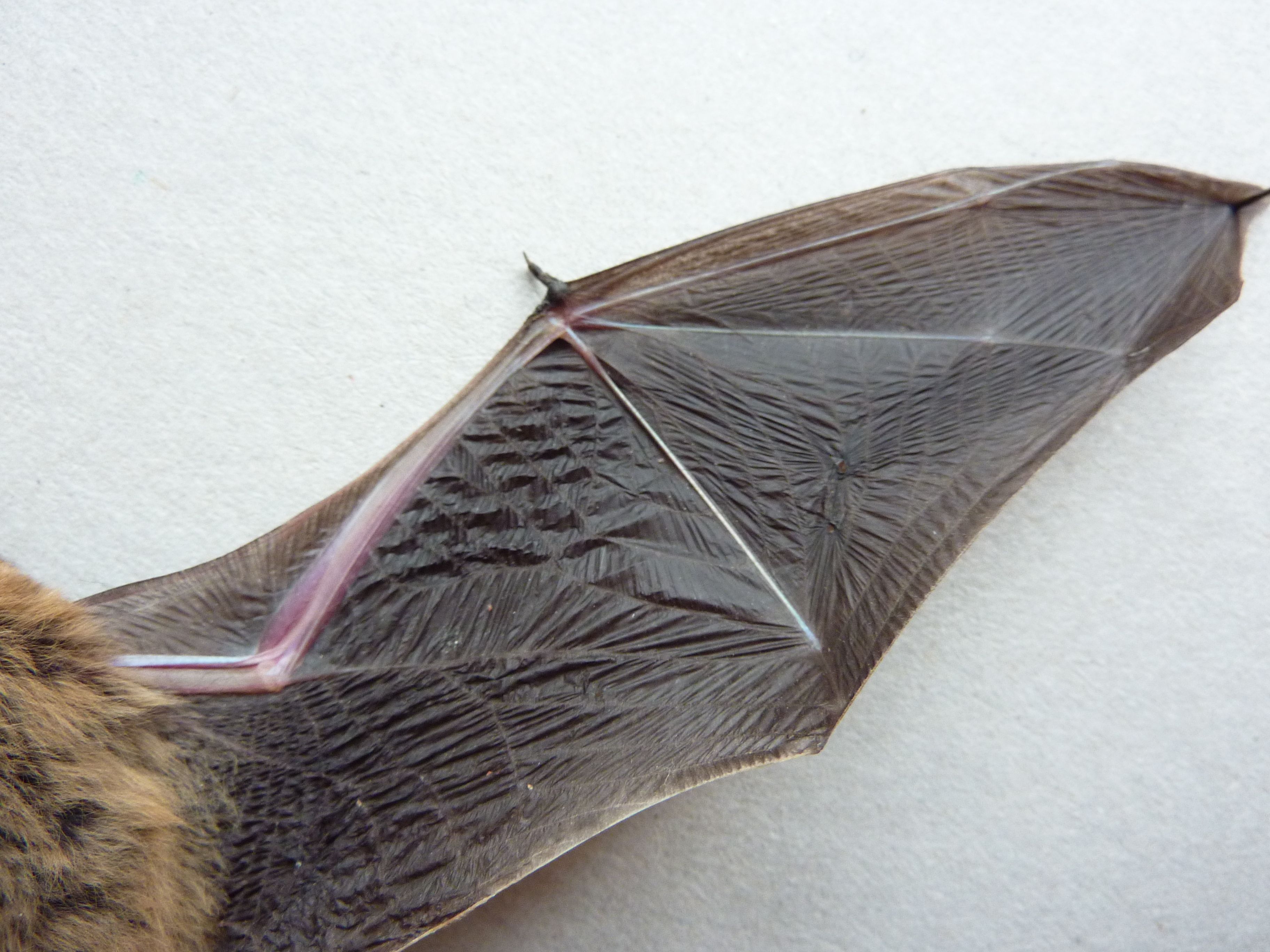 Wing underside. Attic bat, Charente-Maritime (France)